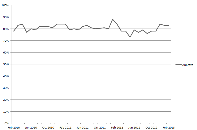 Approval ratings of the Croatian president Ivo Josipović. Conducted by Ipsos Puls.